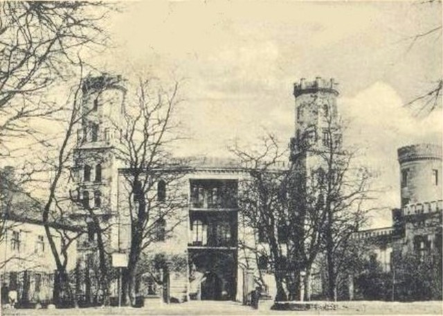 Front view of the old palace in Świerklaniec. It was build in the 19th century in the Tudor Style and burned down in 1945. The ruins were pulled down in 1961.